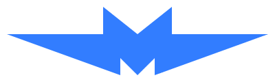 Logo of Metrovagonmash.Own work based on